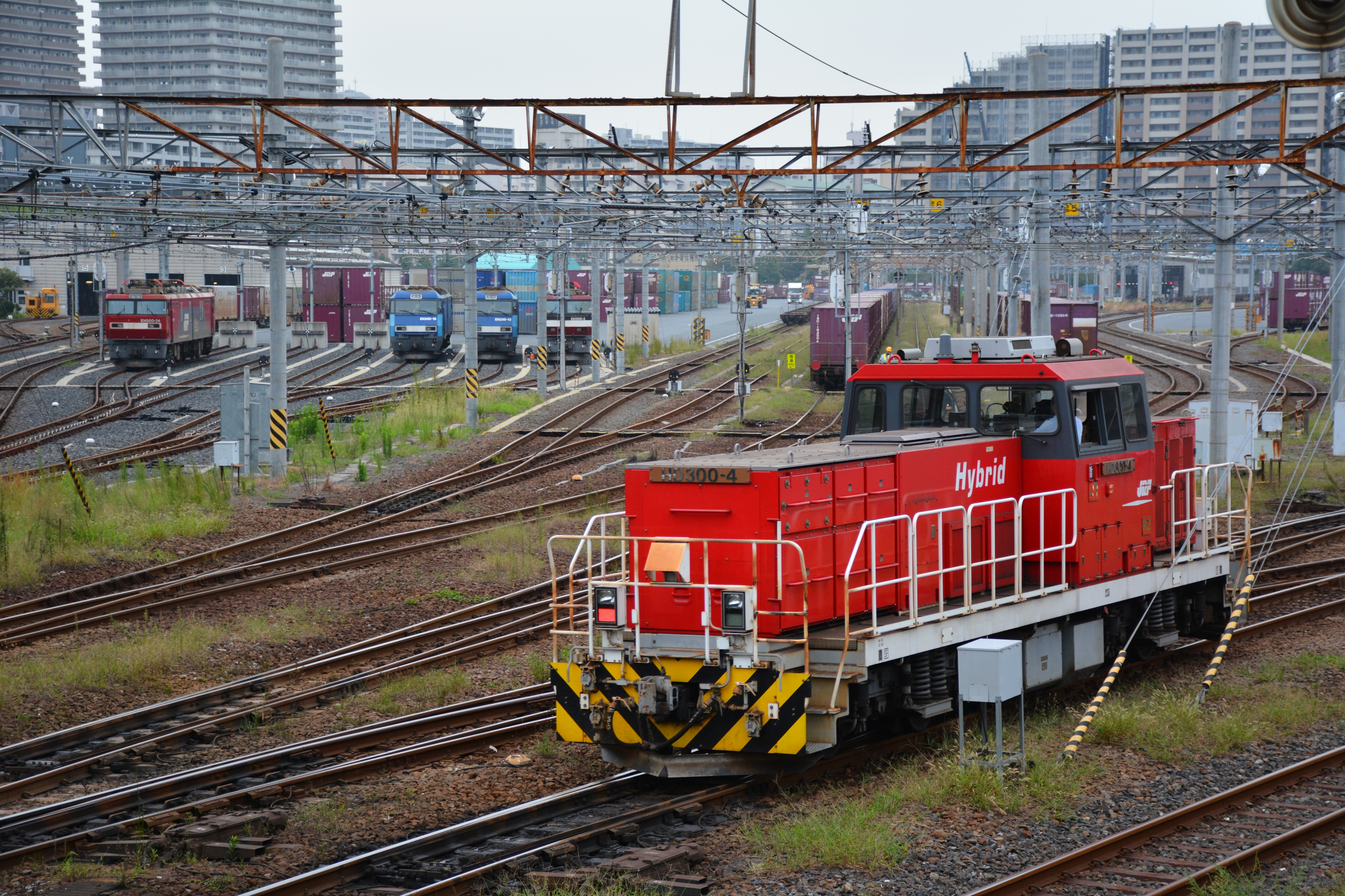 JR Freight Class HD300 hybrid diesel shunter HD300-4 at Sumidagawa Freight Terminal in Tokyo